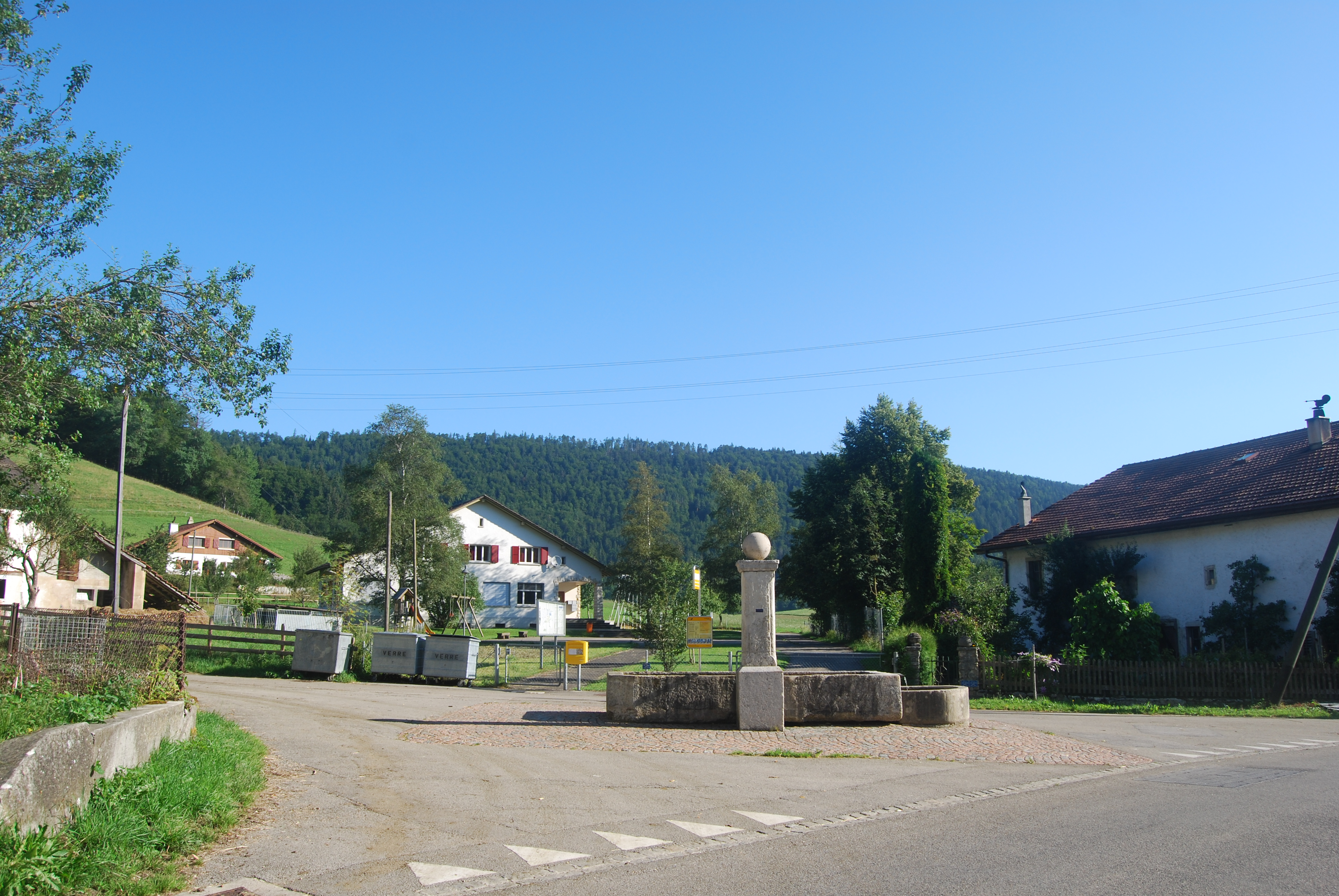 Village fountain at Châtelat, canton of Bern, Switzerland